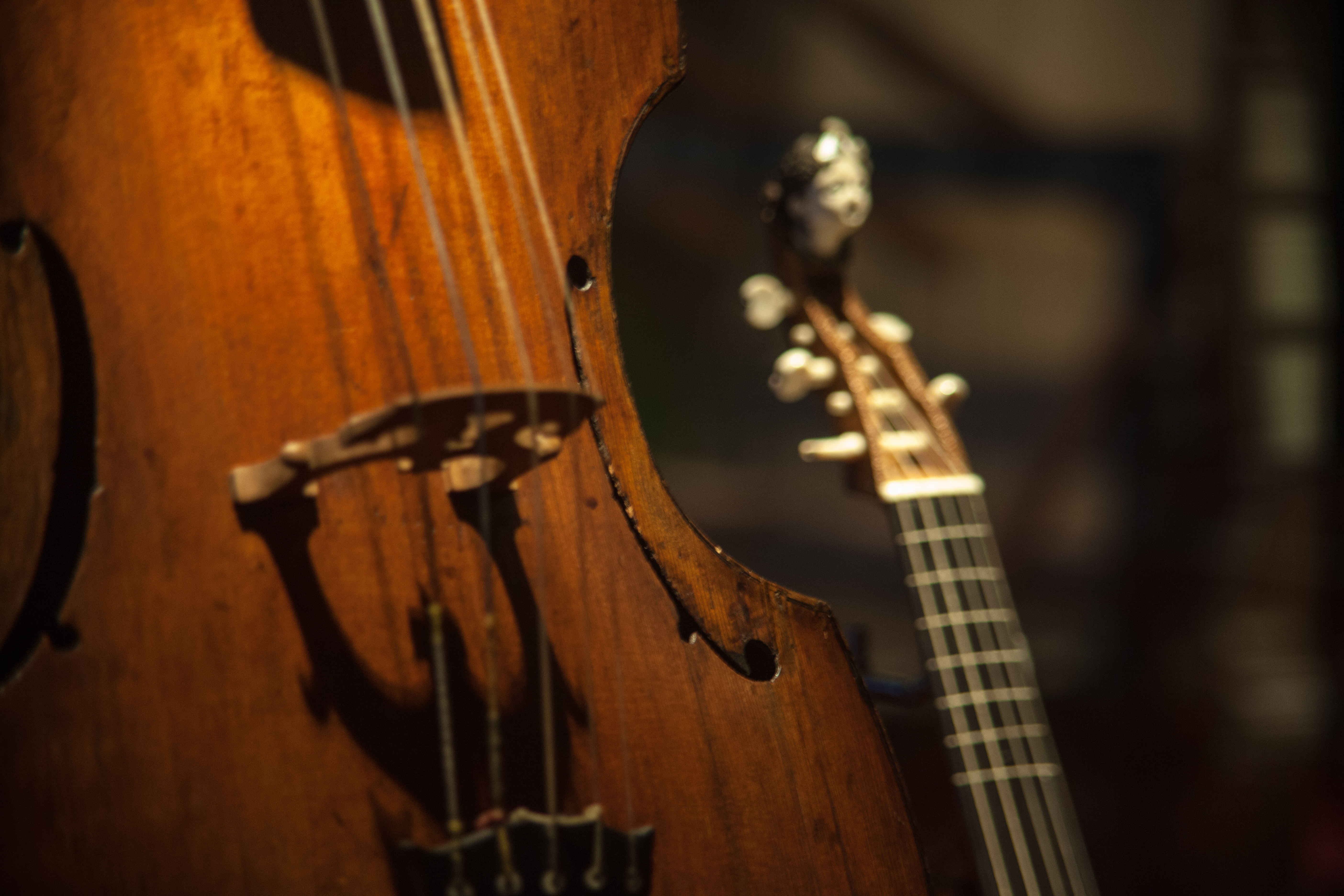 Viol, 1694, by Joachim Tileke ; viol (pardessus viola), 1745, by Pierre Larcher References MDMB 693 : viola d'arc baixa, viola da gamba (1694), Tielke, Joachim (Autor). Museu de la Música, El web de la ciutat de Barcelona. MDMB 694 : viola d'arc tible, par - dessus de viola (1745), Larcher, Pierre (Autor). Museu de la Música, El web de la ciutat de Barcelona.